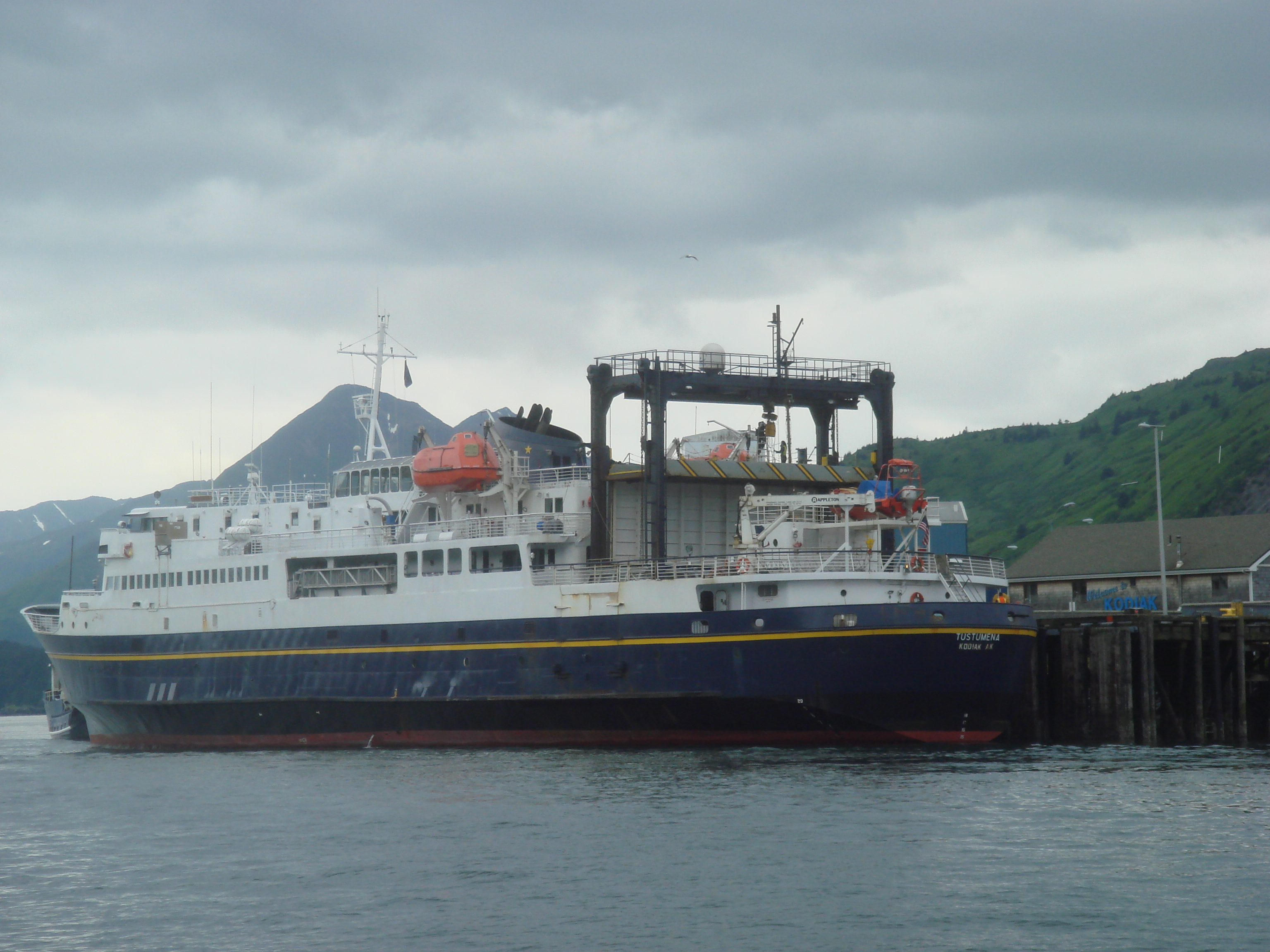 The MV Tustumena, a ferryboat that is part of the Alaska Marine Highway fleet and services Kodiak